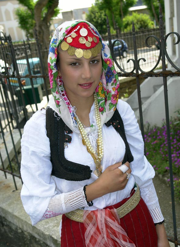 KUD "VRELO IBRA"